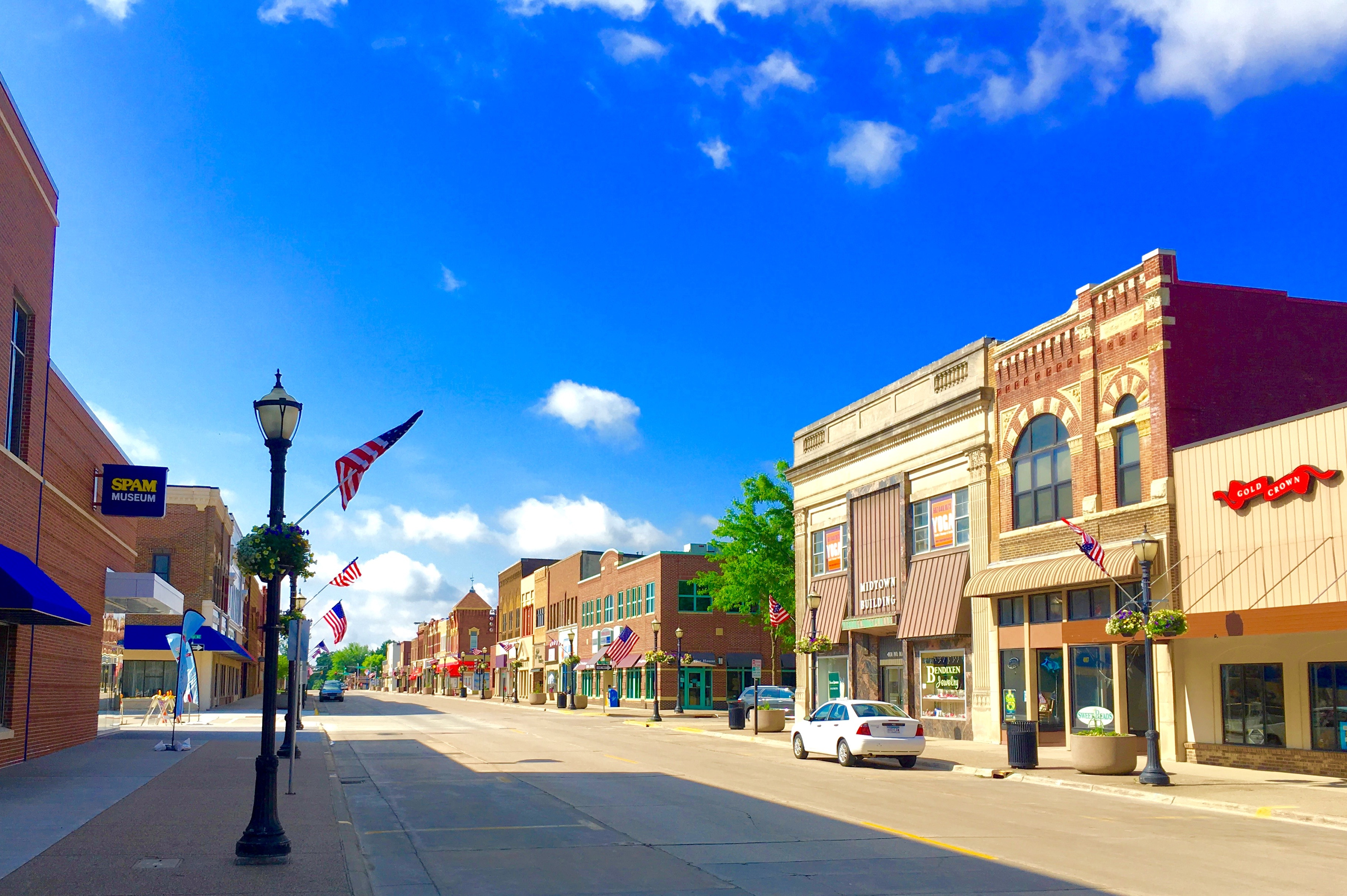 Main Street, Austin MN, looking south (29 May 2016)